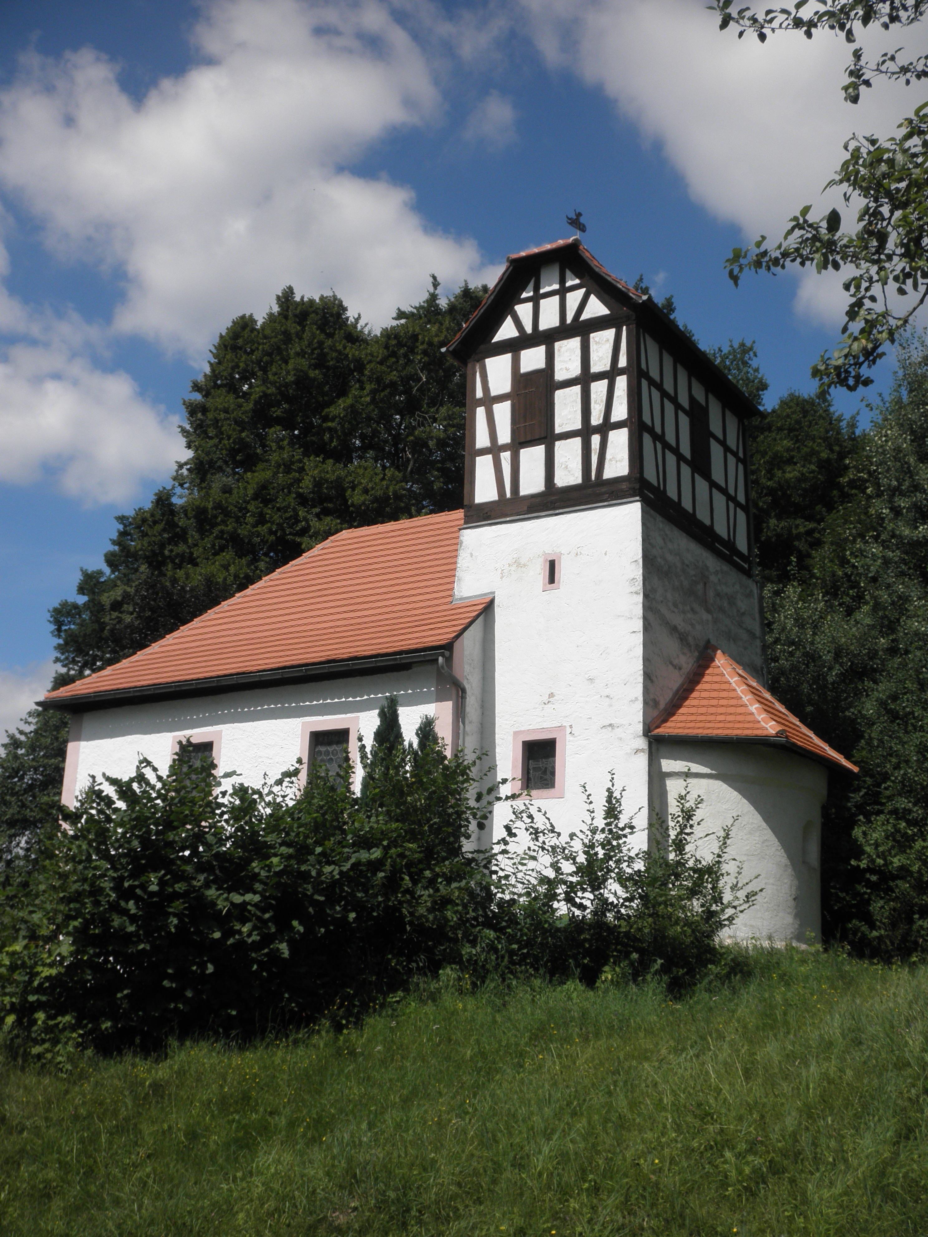 Church in Burkersdorf (Triptis) in Thuringia